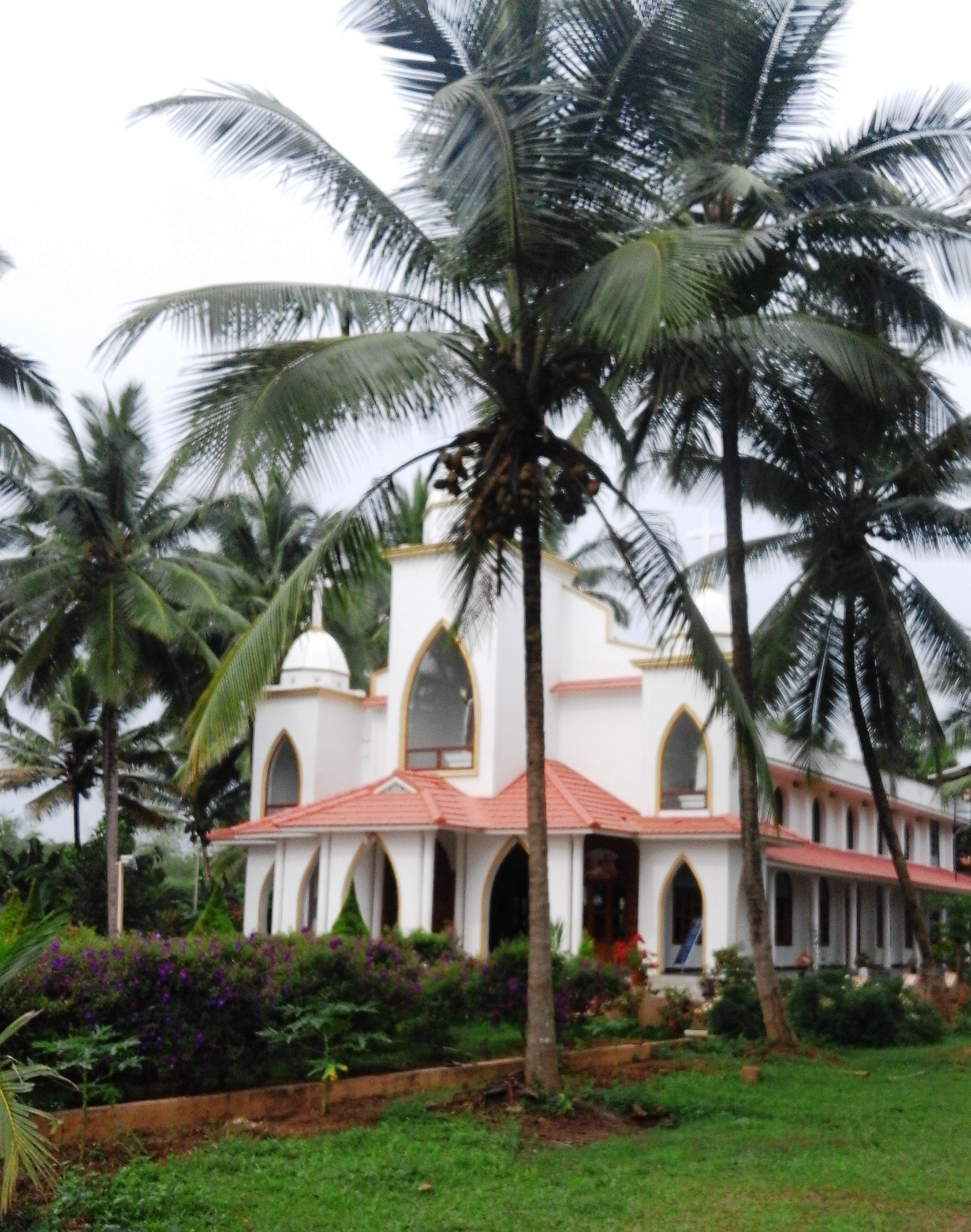 Church near Punchavayal near Panamaram, Wayanad district, Kerala state, India.